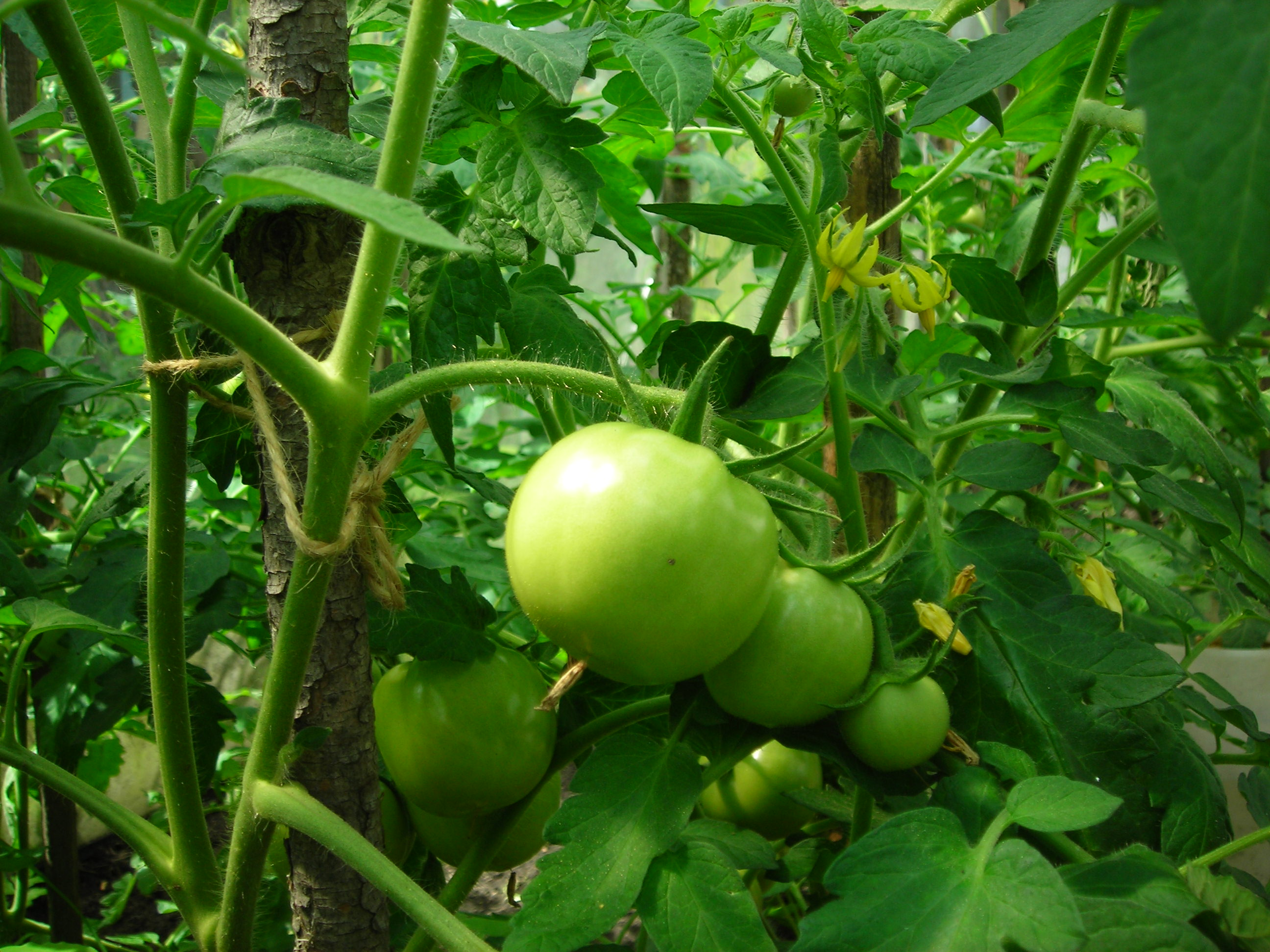 Green Tomato